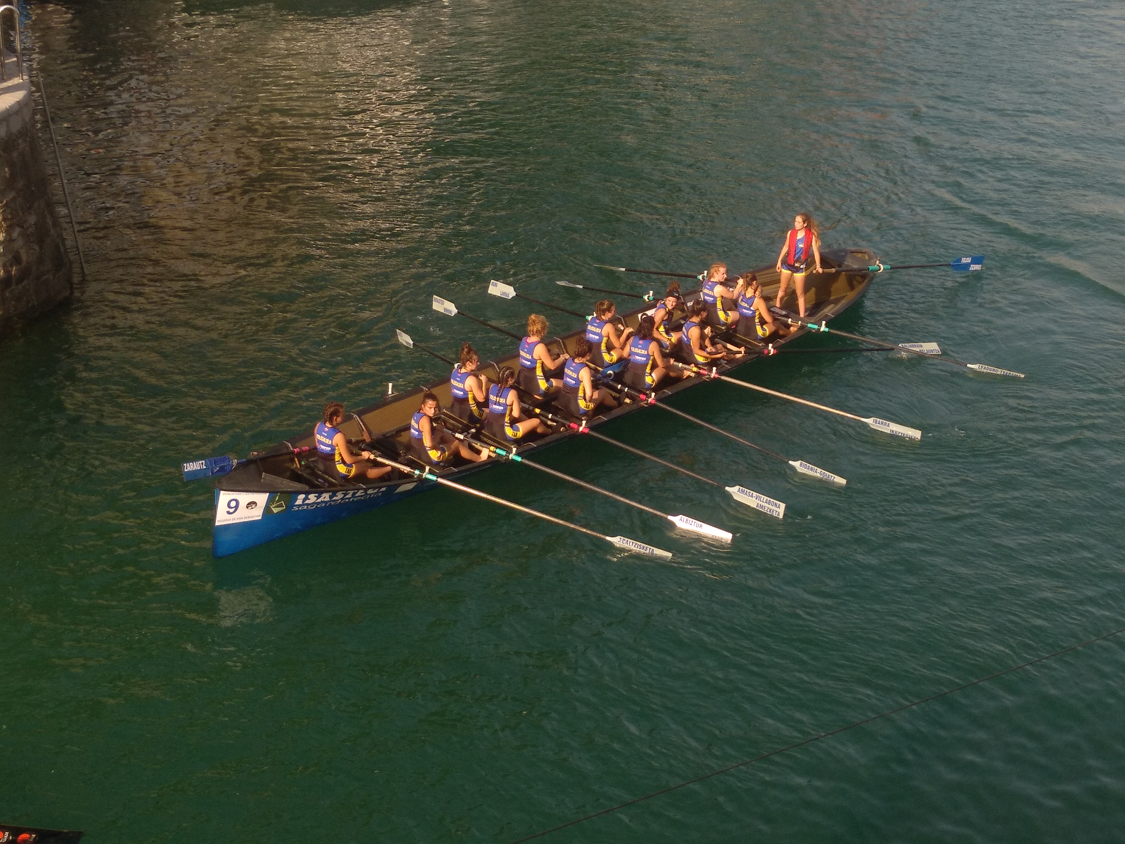 Tolosako Arraun Kluba, women, Flag of La Concha, 2018